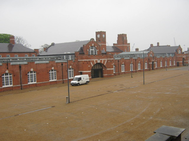 The Drill Hall Library Converted building in former Chatham Dockyard. Now library used by University of Greenwich, and other Medway Universities. Also has limited public use by members of Medway Council Libraries.